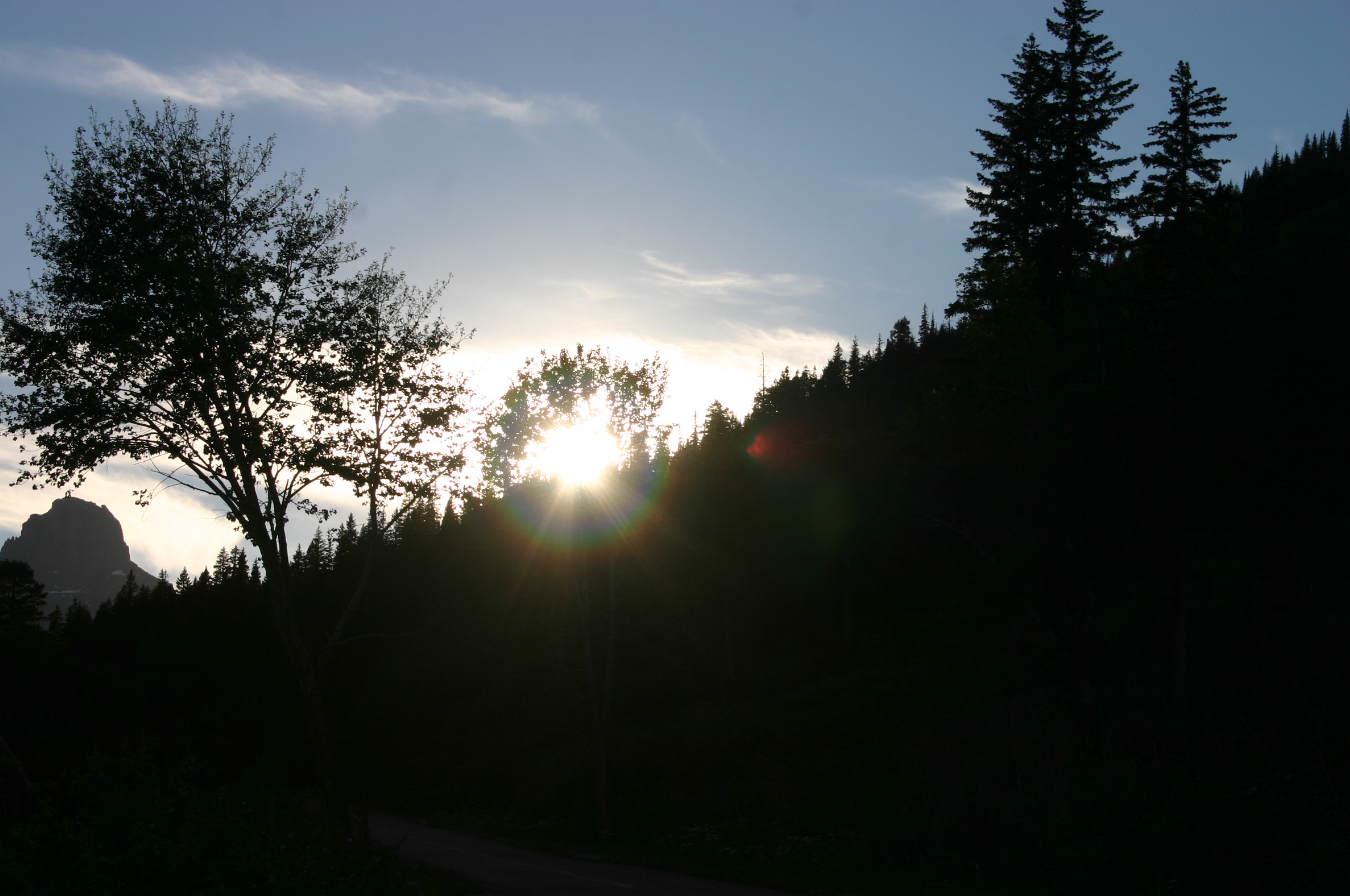 The diffraction of sunlight by trees at Sunset, forming this colors of rainbow. No: this beautiful corona is the result of diffraction of sunlight by tiny droplets in the air. Tree leaves are much too large to produce a visible diffraction pattern, and much too irregular to produce sharp colors. The droplet population has to be extremely homogeneous in size. No, no: coronae due to diffraction by tiny droplets in the air show a different sequence of colours. The most probable explanation is that the front lens of the camera was misted